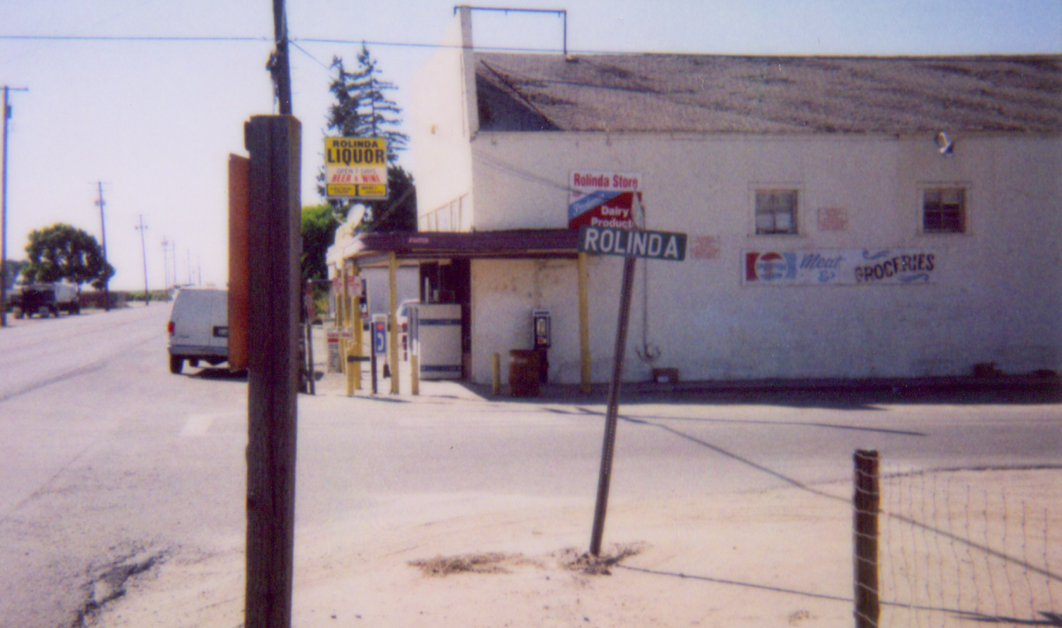 Documentary snapshot of one possible definition of the center of Rolinda. Structure shown is Rolinda Store, (a.k.a. Rolinda Liquor). The store is a landmark of the community. Polaroid snapshot image taken in 2006. Photo by David Jordan. Please credit the photographer when using this photo. State Route 180